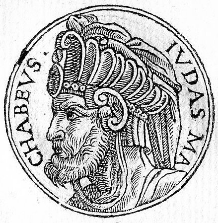 Judas Maccabaeus was a Kohen and the third son of the Jewish priest Mattathias.